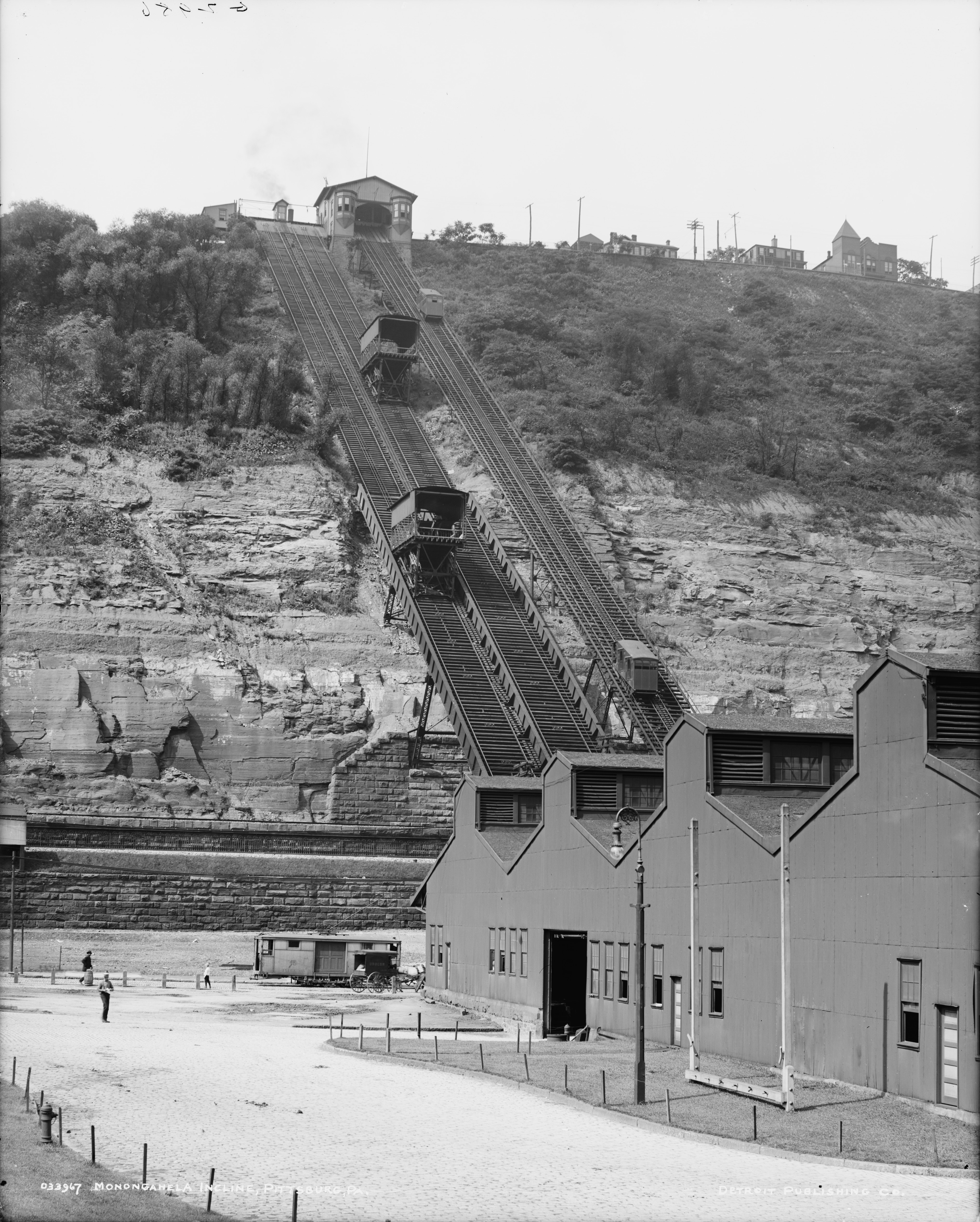 Monongahela Incline, Pittsburgh, Pa., circa 1905